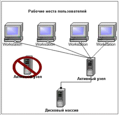 Cluster3